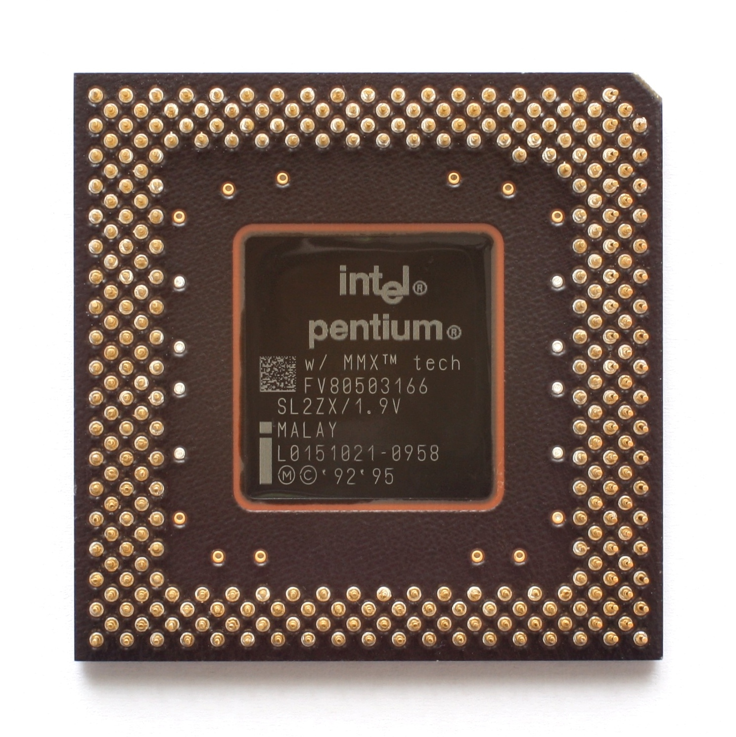 CPU Intel Embedded Pentium MMX, PGA (bottom view).